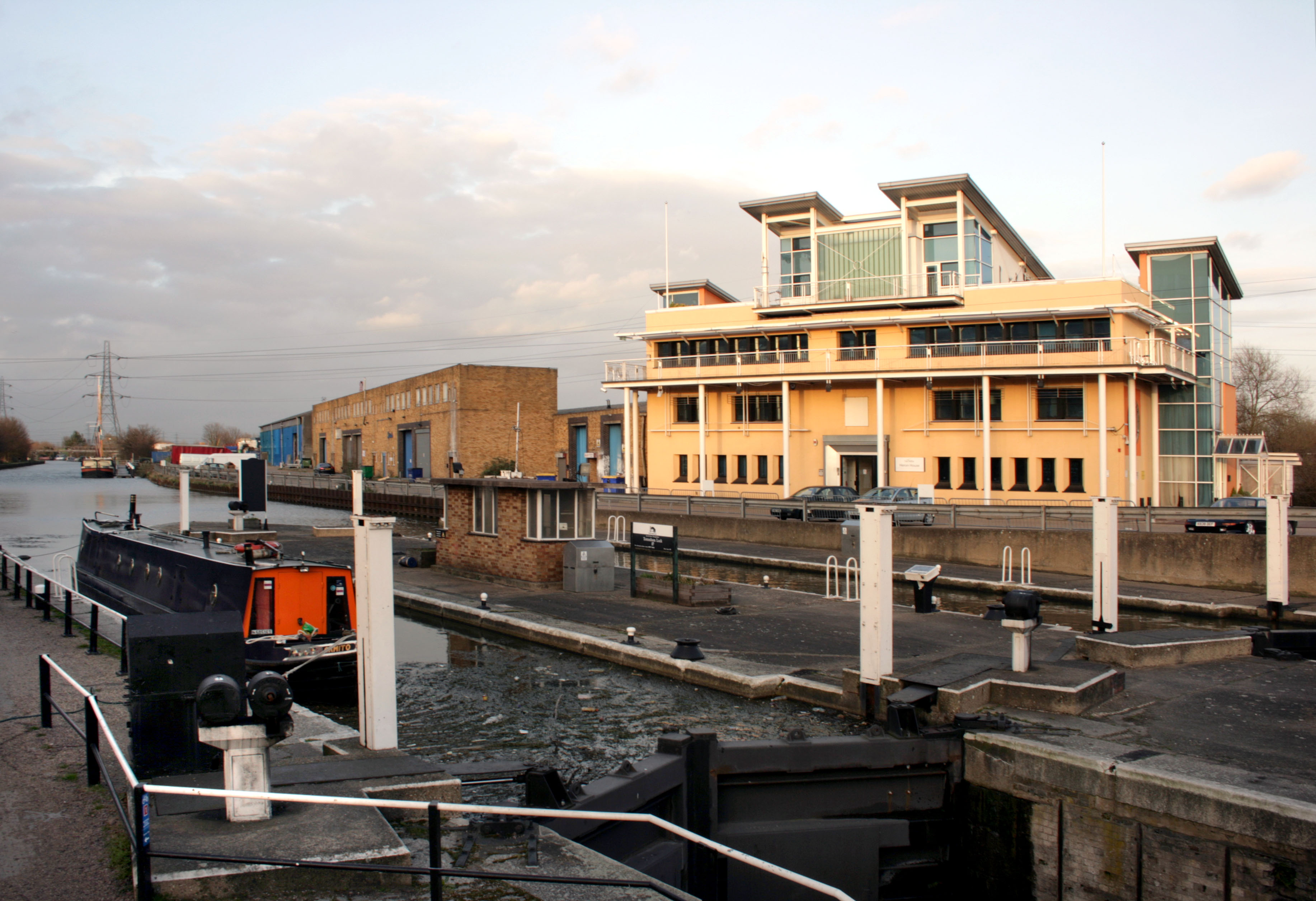 Evening at Tottenham Lock on the Lee Navigation